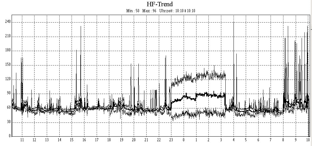 Heart rate diagram of a Holter recording showing an episode of atrial fibrillation (11:00 pm - 3:20 am)